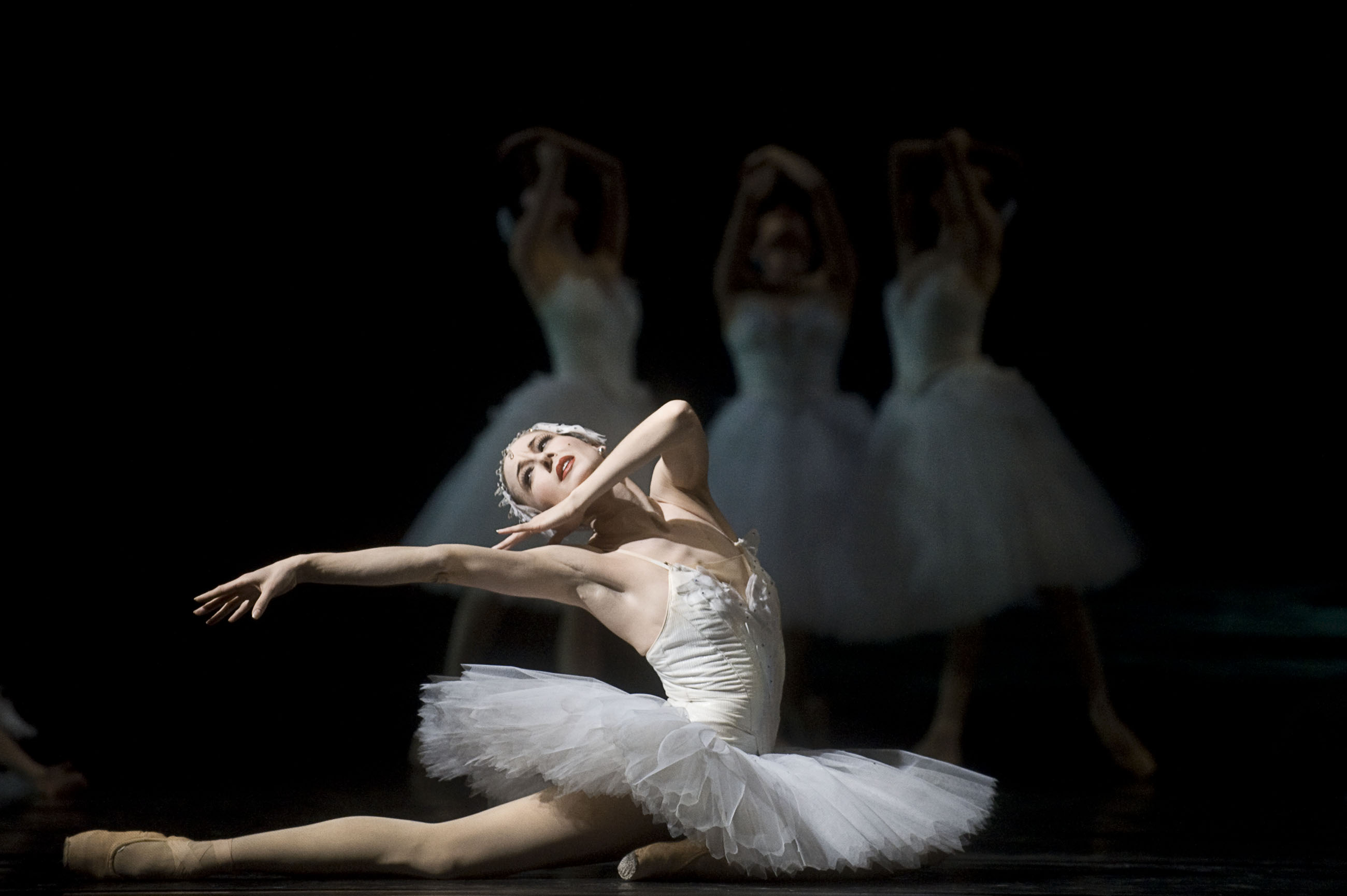 Nadja Sellrup in a production of Swan Lake at the Royal Swedish Opera